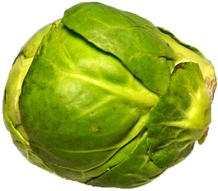 A Brussels sprout.